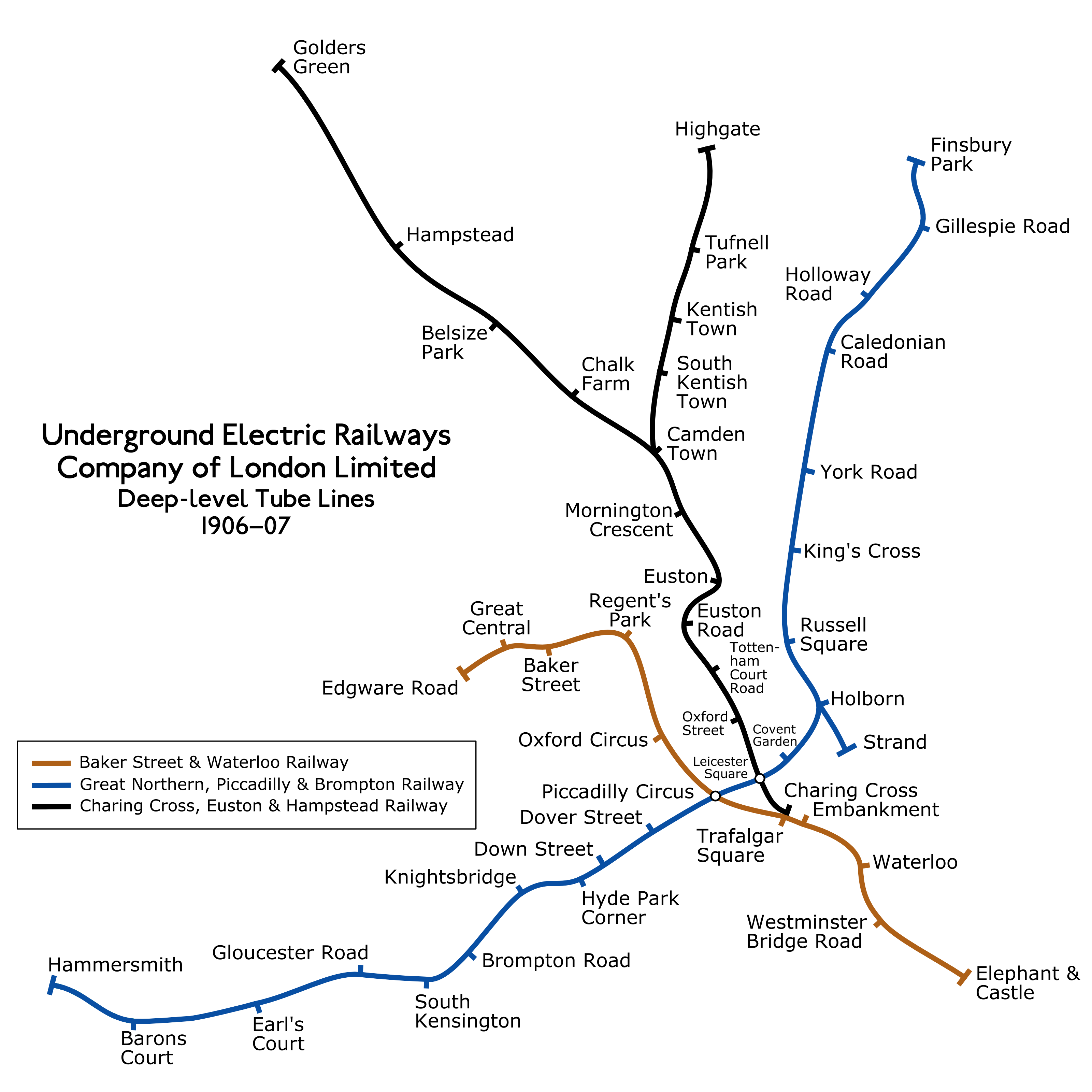 Geographic map of the Underground Electric Railways Company of London Limited's (UERL's) deep level tube routes as they were in 1907.